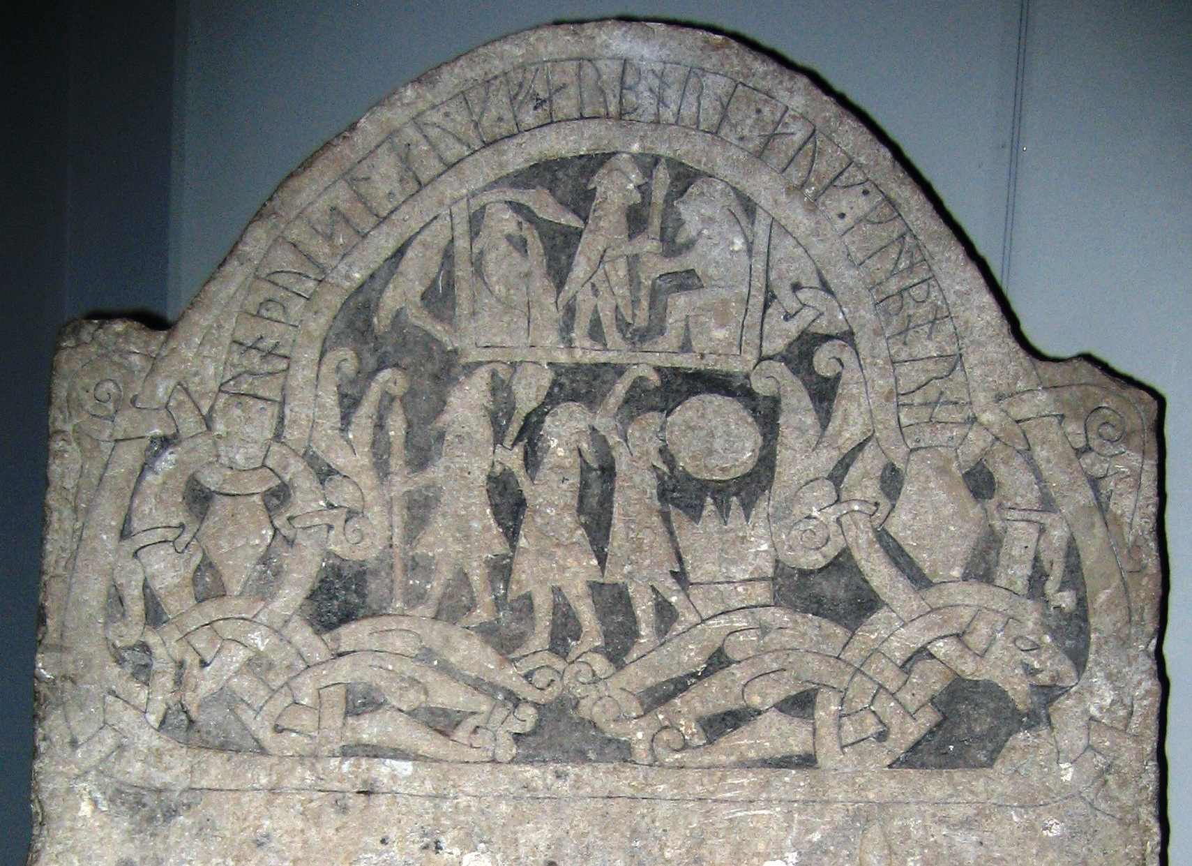 A colour photograph depicting decoration on the Gotland runestone G 181. The artefact was produced in the Viking Age and is presently located in the Swedish Museum of National Antiquities in Stockholm, where this image was captured.